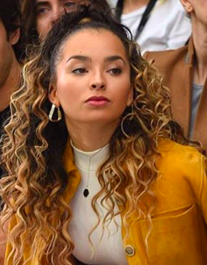 Ella Eyre on the front row at London Fashion Week 2016